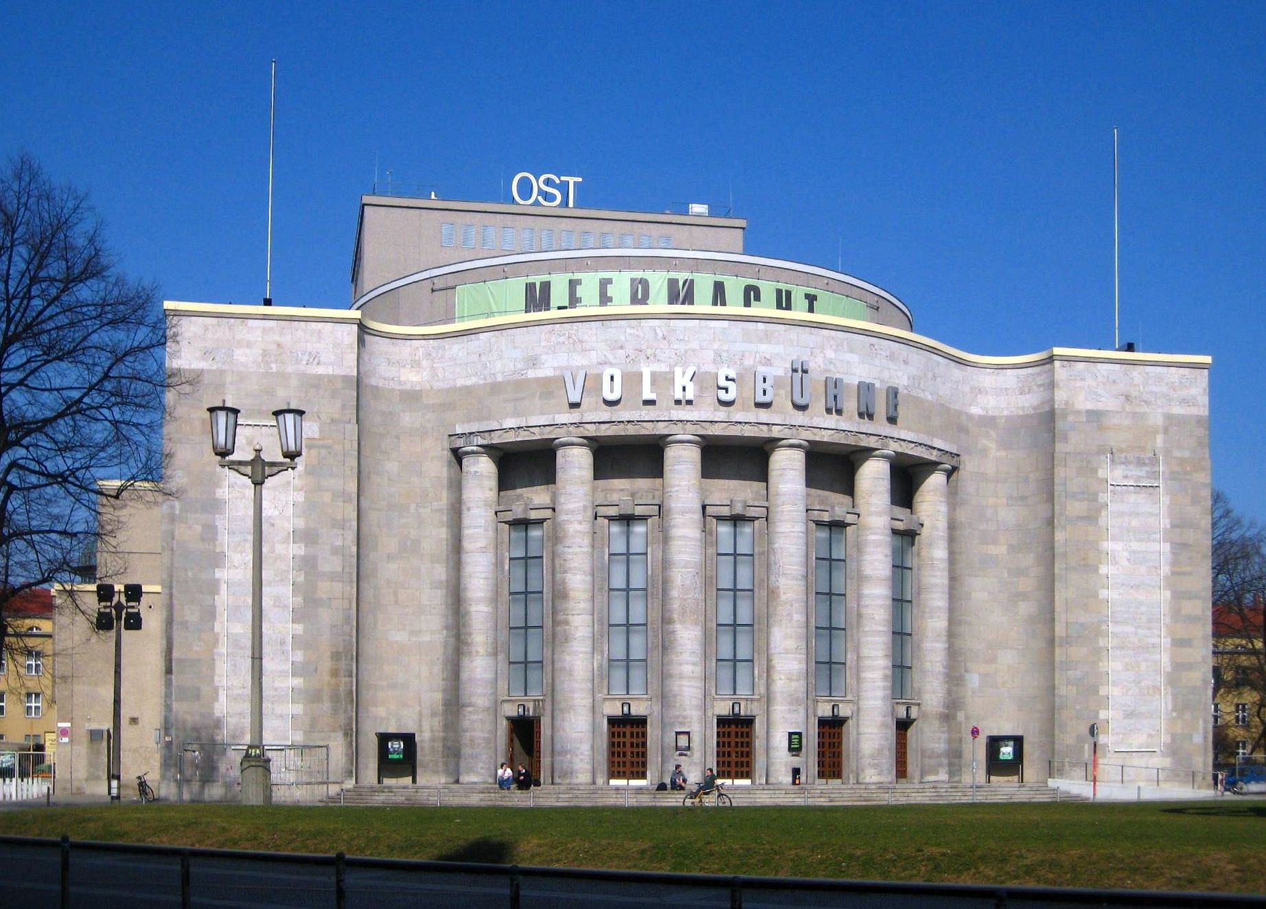 The Volksbühne on Rosa-Luxemburg-Platz in Berlin-Mitte. It was built from 1913 to 1914 to a design by the architect Oskar Kaufmann. The building has been designated as a historic landmark.